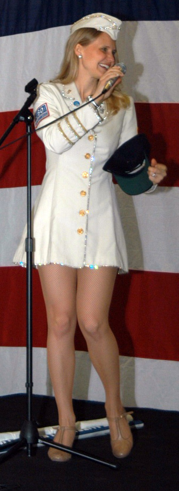 New York City (May 25, 2006) - Lynelle Johnson, Miss USO 2005, sings a patriotic song to an audience attending the United Nations' reception held in the hangar bay aboard the amphibious assault ship USS Kearsarge (LHD 3). Fleet Week has been sponsored by New York City since 1984 in celebration of the nation’s sea services. The annual event also provides an opportunity for citizens of New York City and the surrounding Tri-State area to meet Sailors and Marines, as well as witness first- hand the latest capabilities of today’s Navy and Marine Corps team. Fleet week includes dozens of military demonstrations and displays throughout the week, as well as public visitation of many ships.